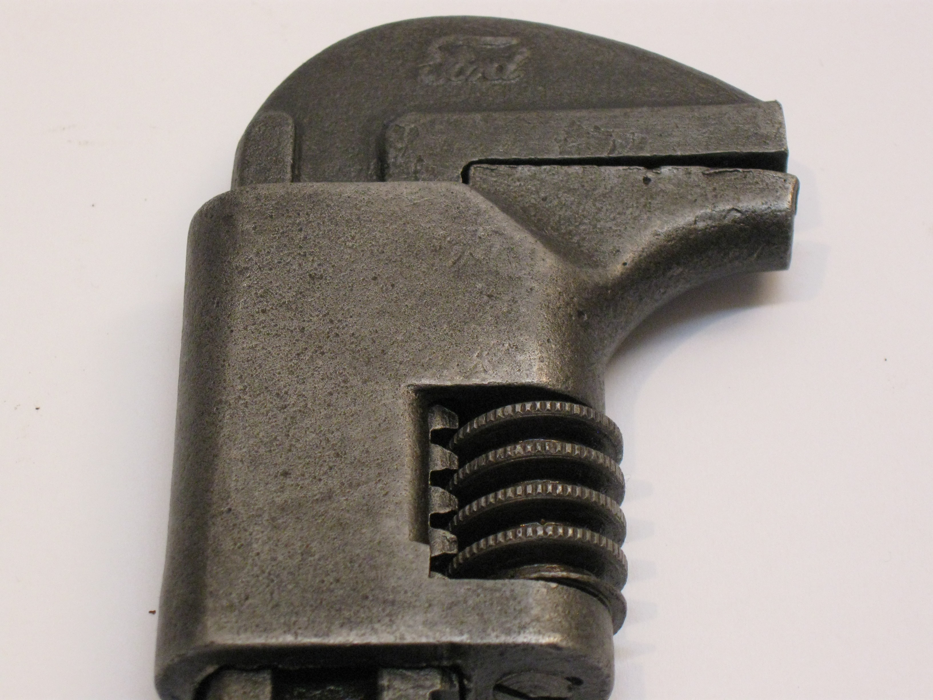 Ford Auto Wrench - Probably from 1920's - Electrolytic rust removal